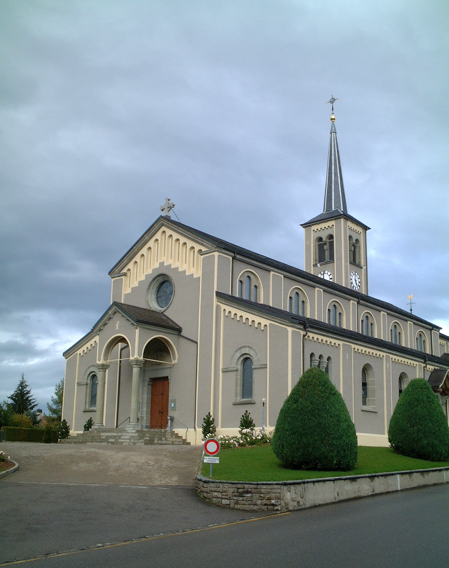 Schmitten, a village in the canton of Fribourg, Switzerland. Pfarrkirche Sankt Joseph